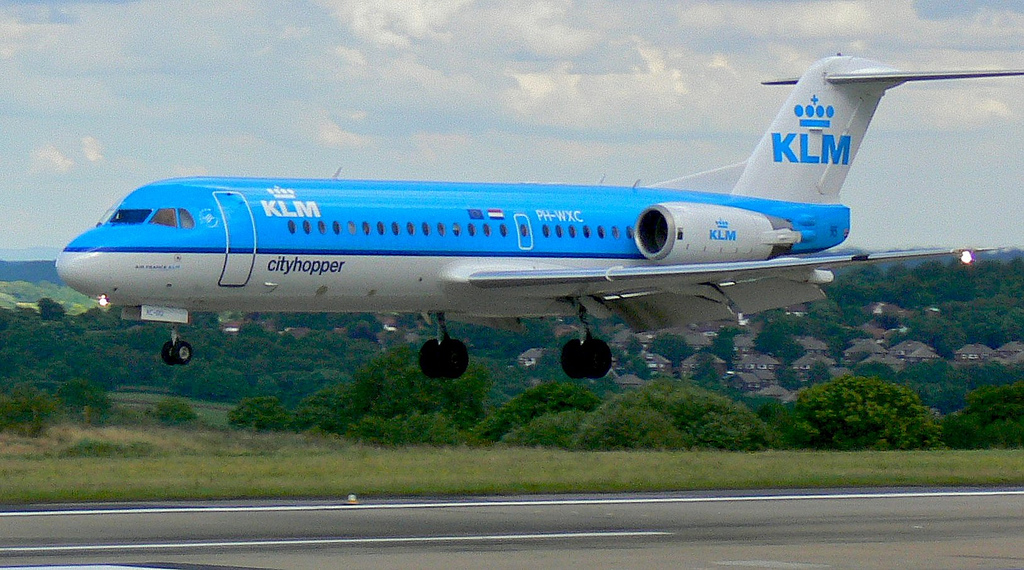 Fokker 70 lands at Leeds Bradford Airport